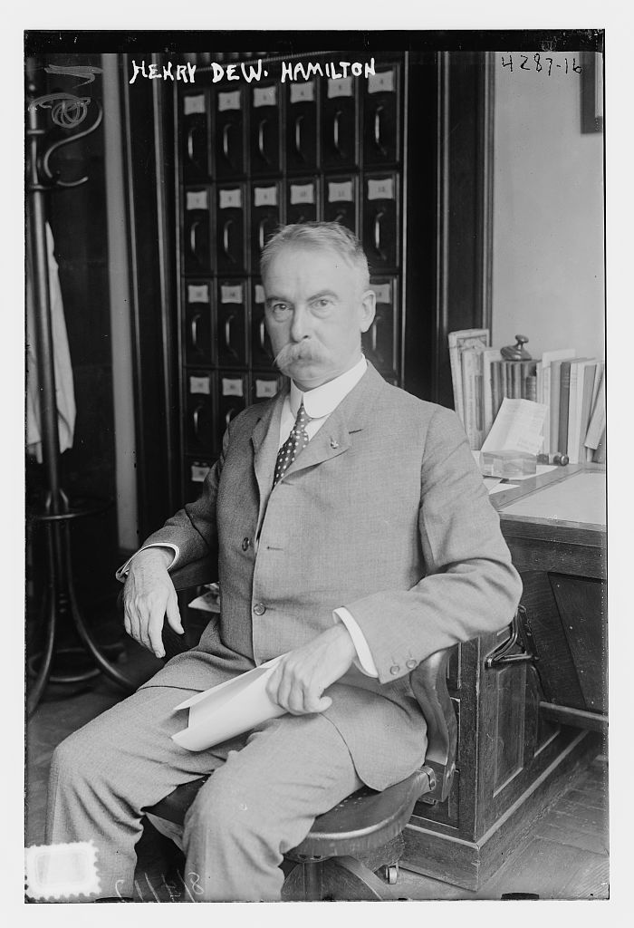 Henry DeWitt Hamilton in 1917